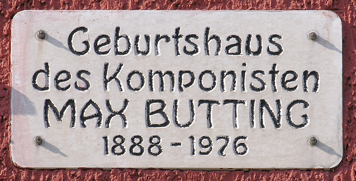 Memorial plaque, Max Butting, Brunnenstraße 148, Berlin-Mitte, Germany Koordinate:52°32′12″N 13°23′49″E / 52.53667°N 13.39694°E